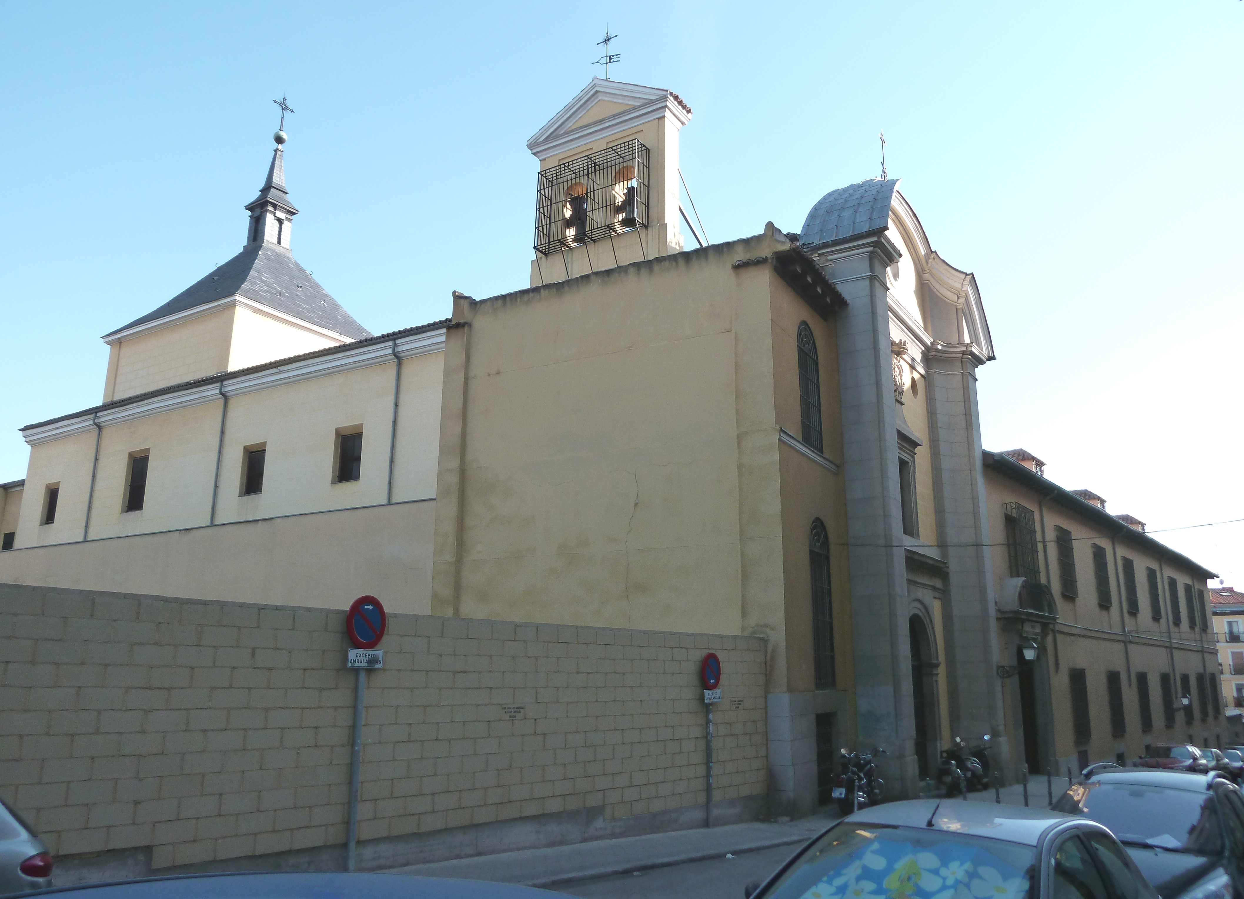 Façade of Hospital de la Venerable Orden Tercera (a hospital) in Madrid (Spain), at 11 Calle de San Bernabé (street). Built in 1699.